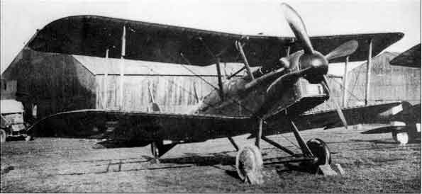 James McCudden's personalised fighter